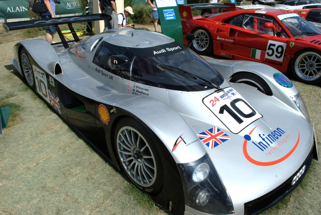 1999 Audi R8C at Le Mans Classic 2010